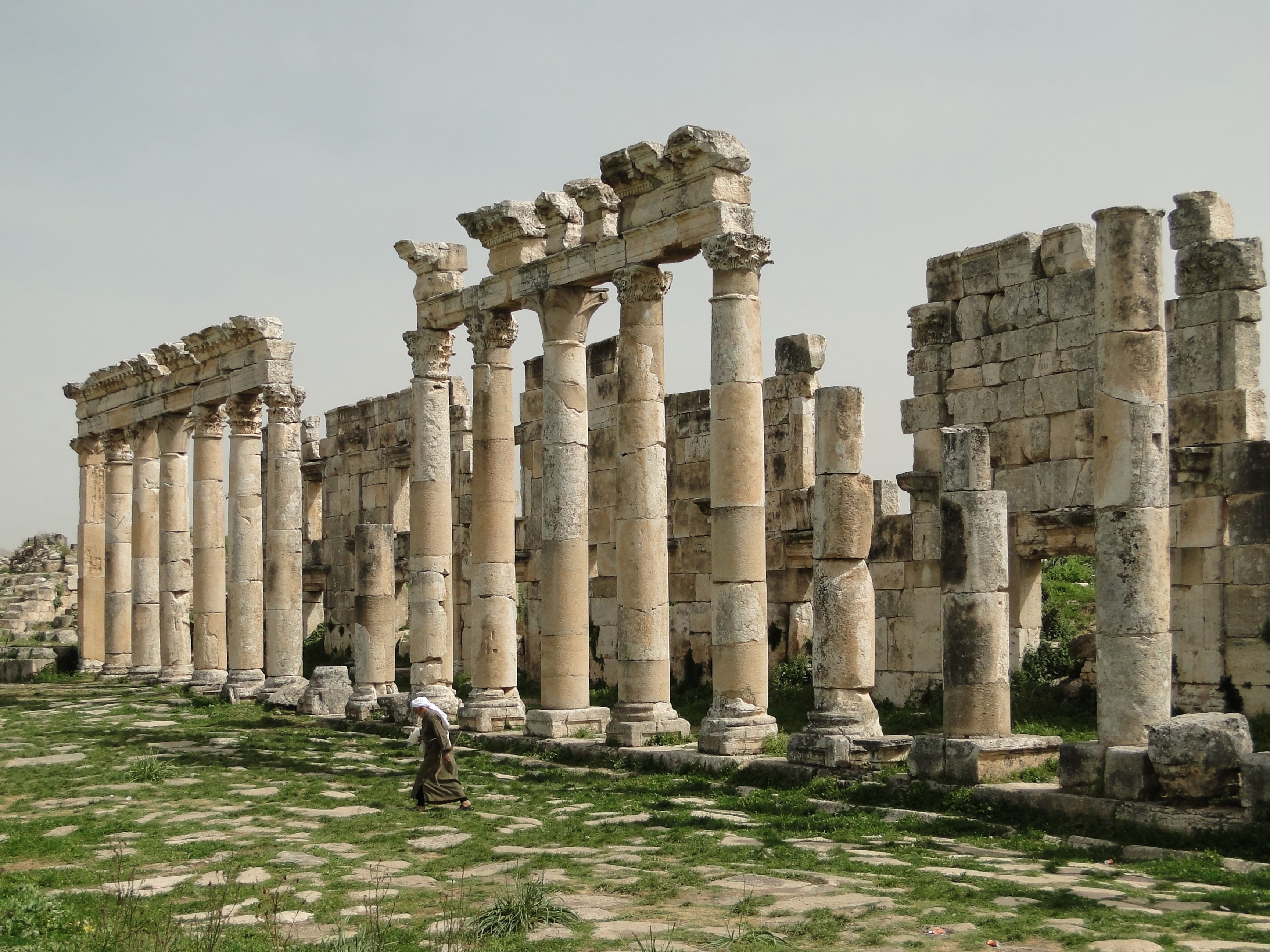 Some columns in the north part on the city of Apamea, Syria